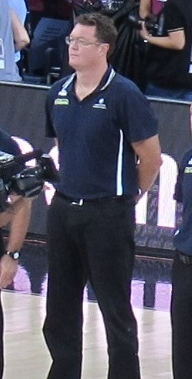 Category:Uploaded This file is made available under the Creative Commons CC0 1.0 Universal Public Domain Dedication. The person who associated a work with this deed has dedicated the work to the public domain by waiving all of their rights to the work worldwide under copyright law, including all related and neighboring rights, to the extent allowed by law. You can copy, modify, distribute and perform the work, even for commercial purposes, all without asking permission.